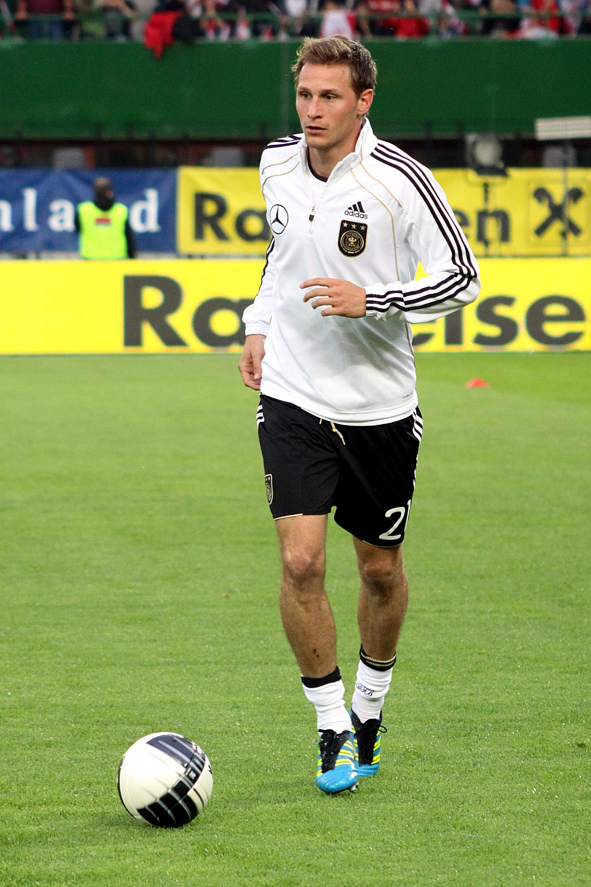 Benedikt Höwedes (FC Schalke 04), german national football team